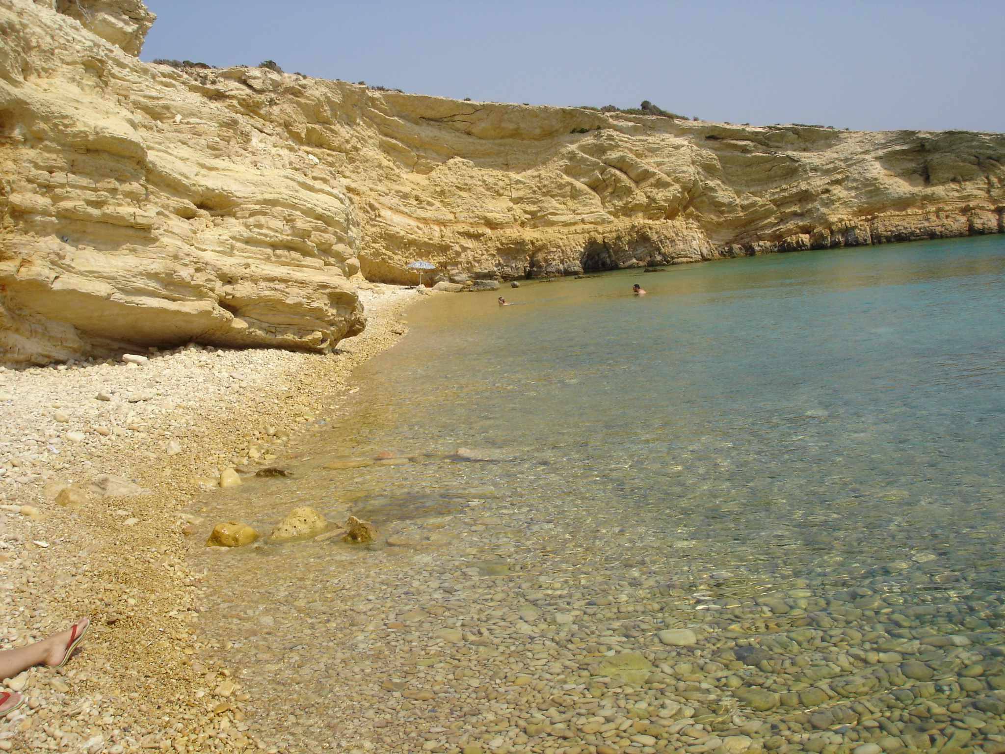 Beach in Kato Koufonisi